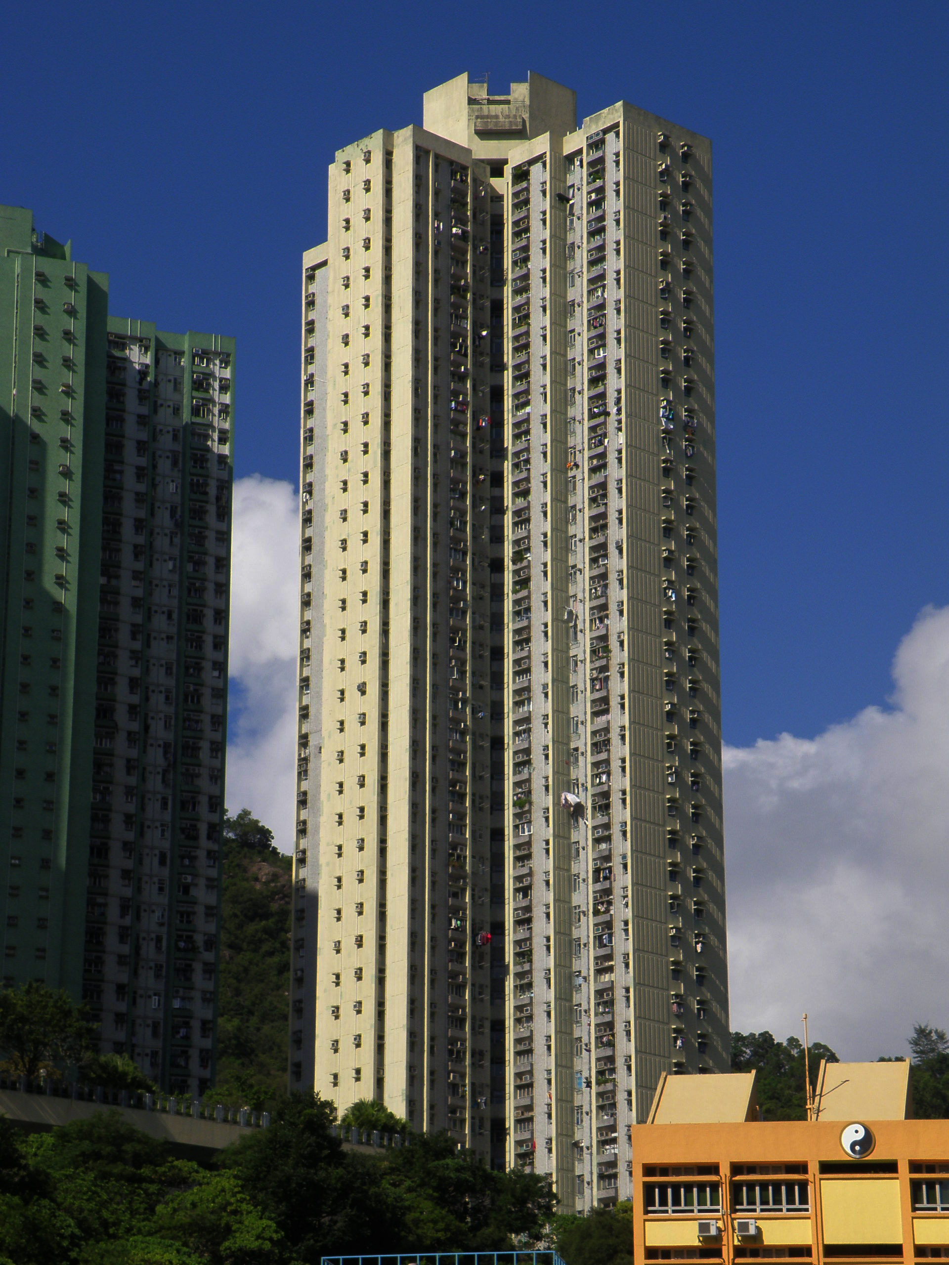 Hong Shui Court in Lam Tin, Hong Kong.